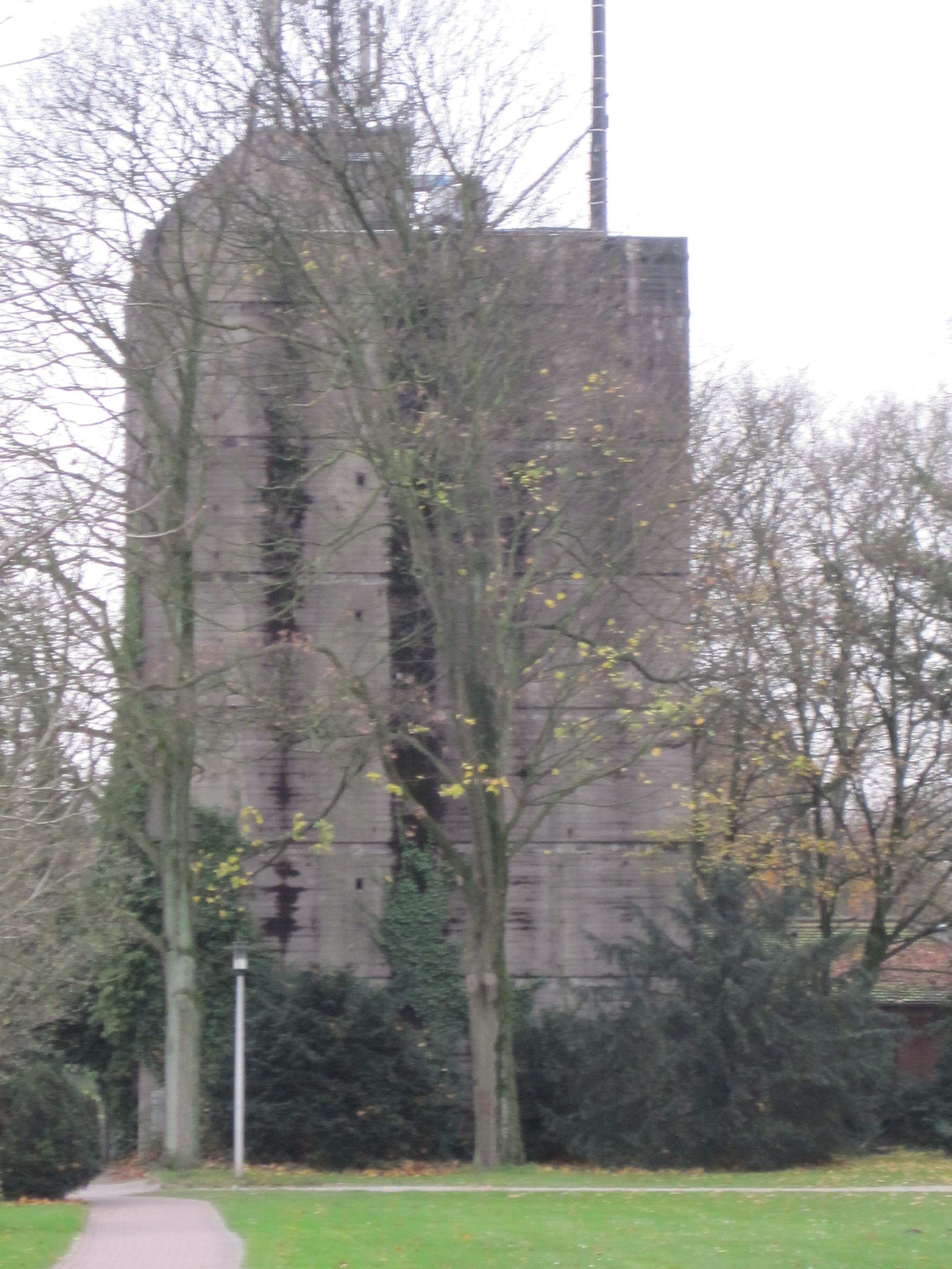 World War II Spa - Bunker.